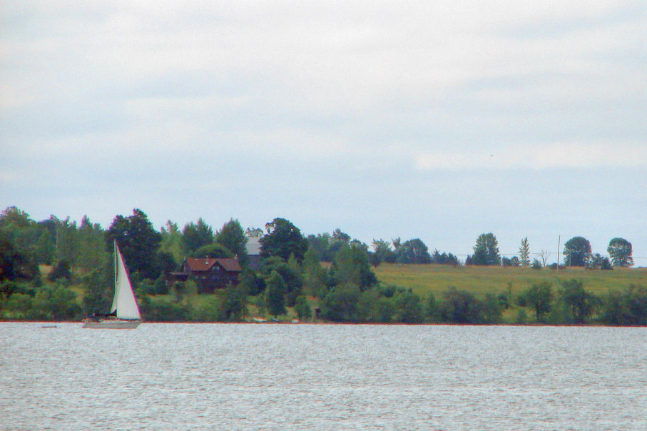 Amherst Island (part of Loyalist Township), Ontario, Canada